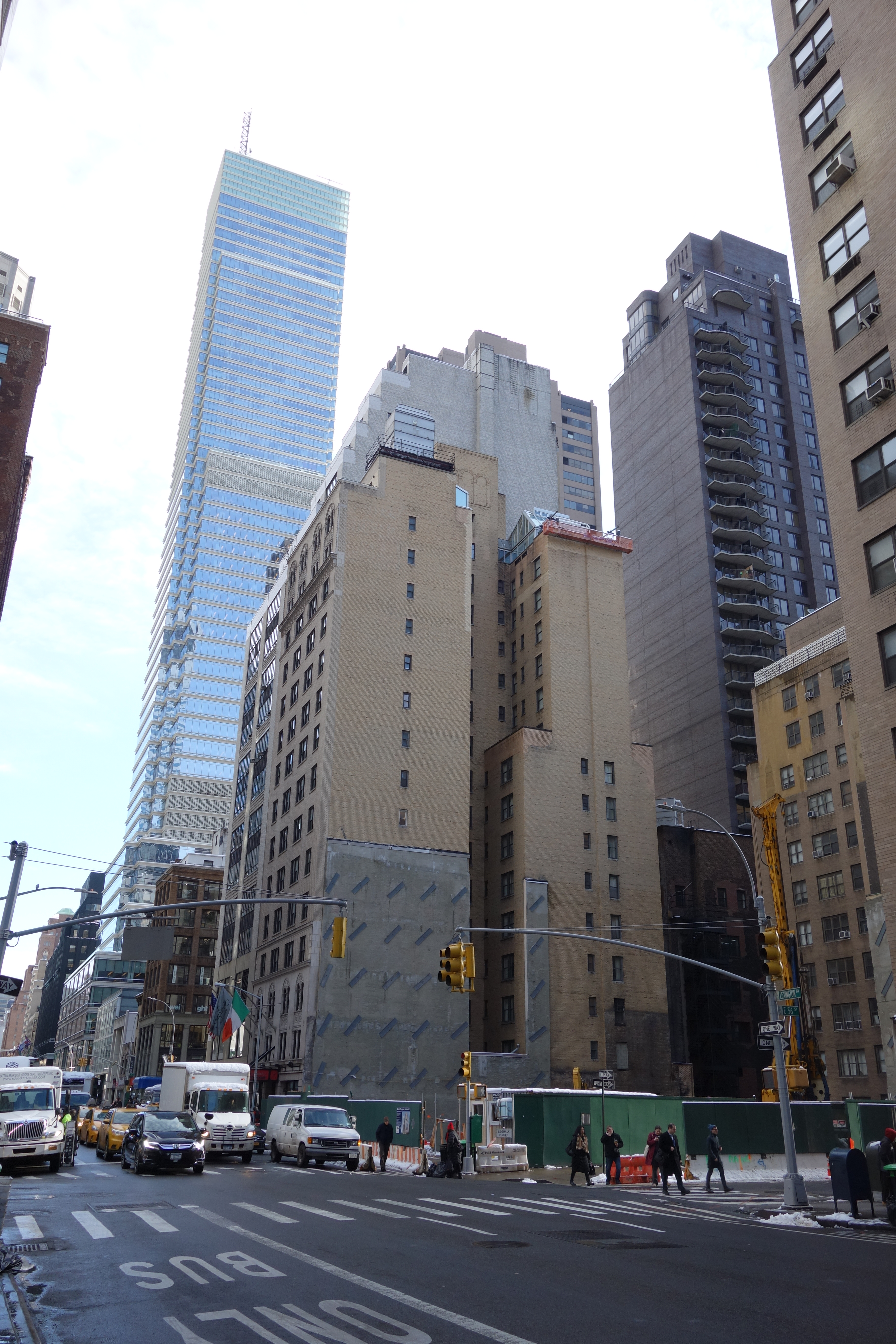 Looking north at Lexington Avenue and 56th Street in East Midtown Manhattan. The pictured two-tower building is the Fitzpatrick Manhattan Hotel (687 Lexington Avenue).